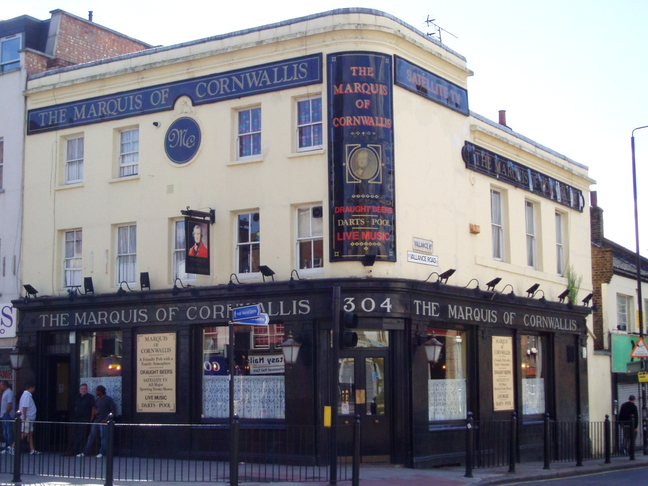 One of many local boozers on Bethnal Green Rd. Address: 304 Bethnal Green Road. Owner: Truman Hanbury Buxton (former). Links: Beer in the Evening Dead Pubs (history)